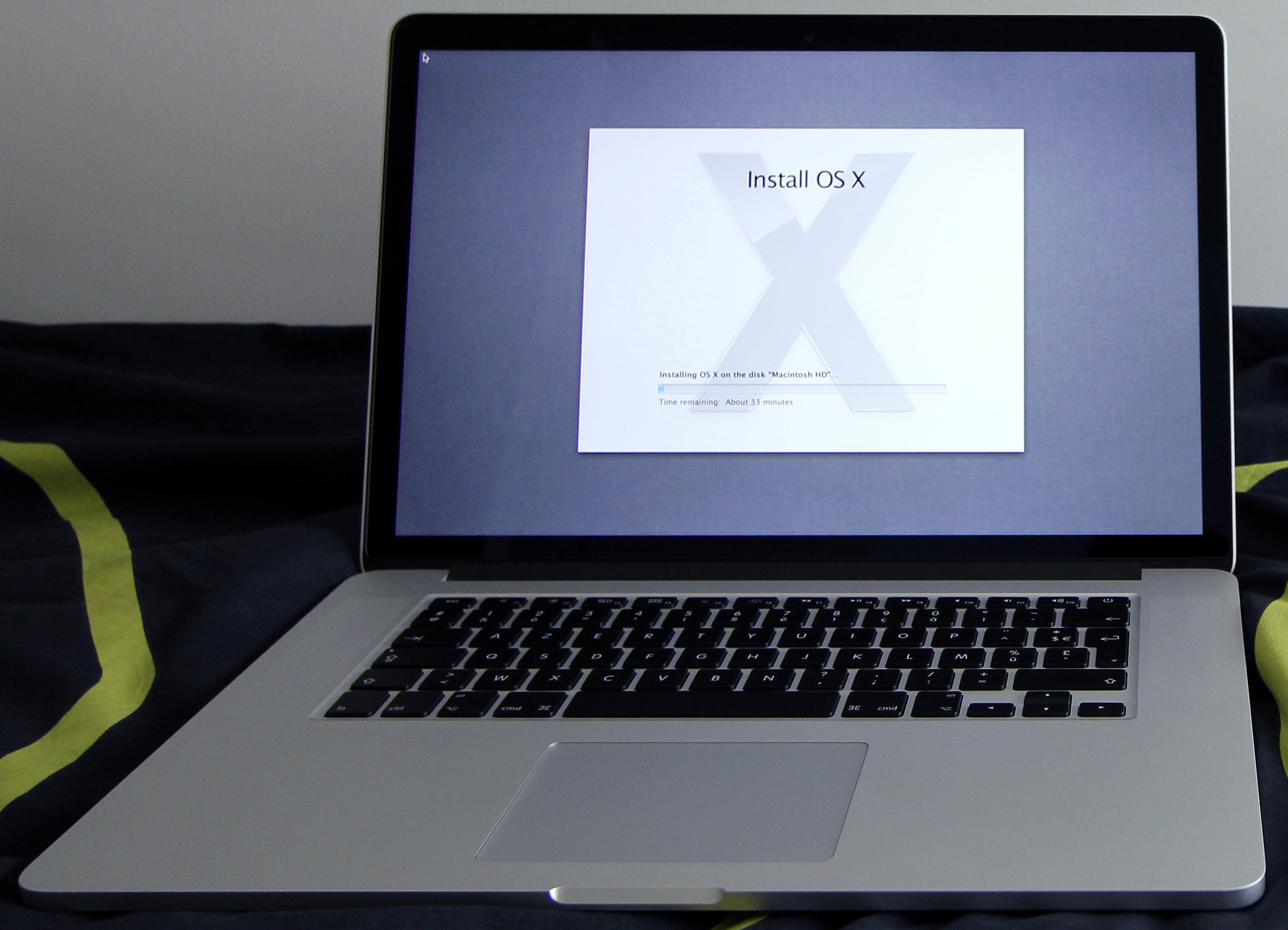 15” Retina MacBook Pro (Mid 2012)